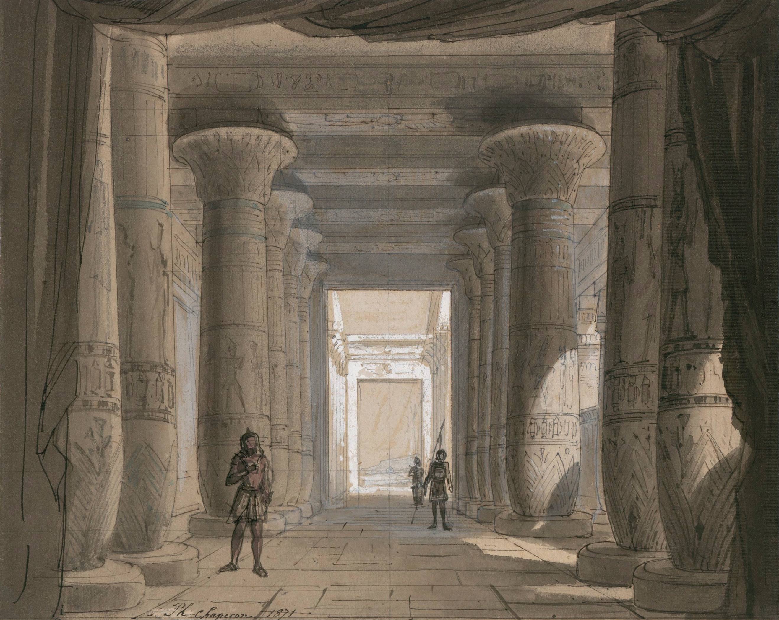 Set design for Act 1 tableau 2 ("Temple of Vulcan") of Verdi's opera Aida as first performed at the Cairo Opera House on 24 December 1871